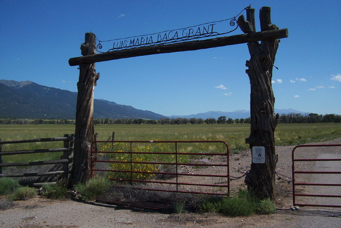 View from the northwestern corner of the Luis Maria Baca Grant No. 4